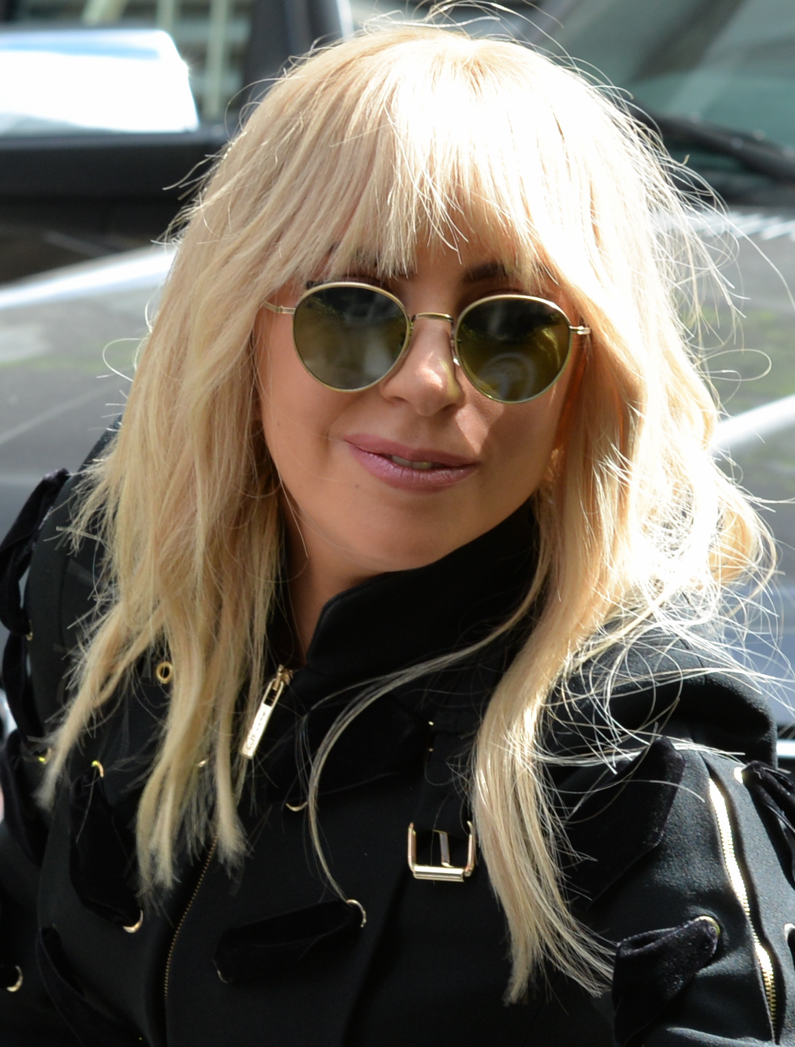 Lady Gaga arriving at the Gaga: Five Foot Two press conference during the 2017 Toronto International Film Festival